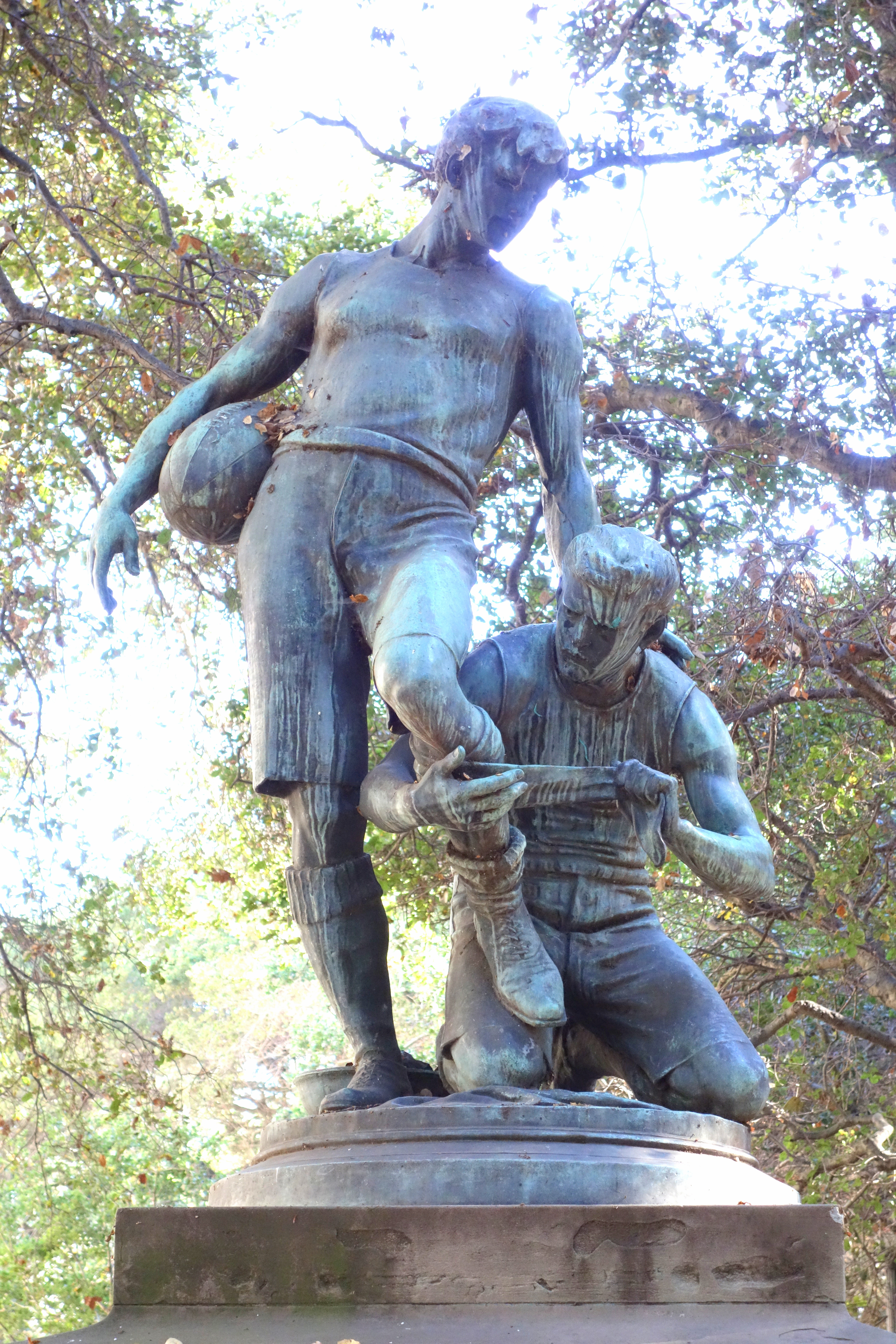 The Football Players by Douglas Tilden (1860-1935) - University of California, Berkeley - Berkeley, California, USA. This artwork is in the public domain because the artist died more than 70 years ago.